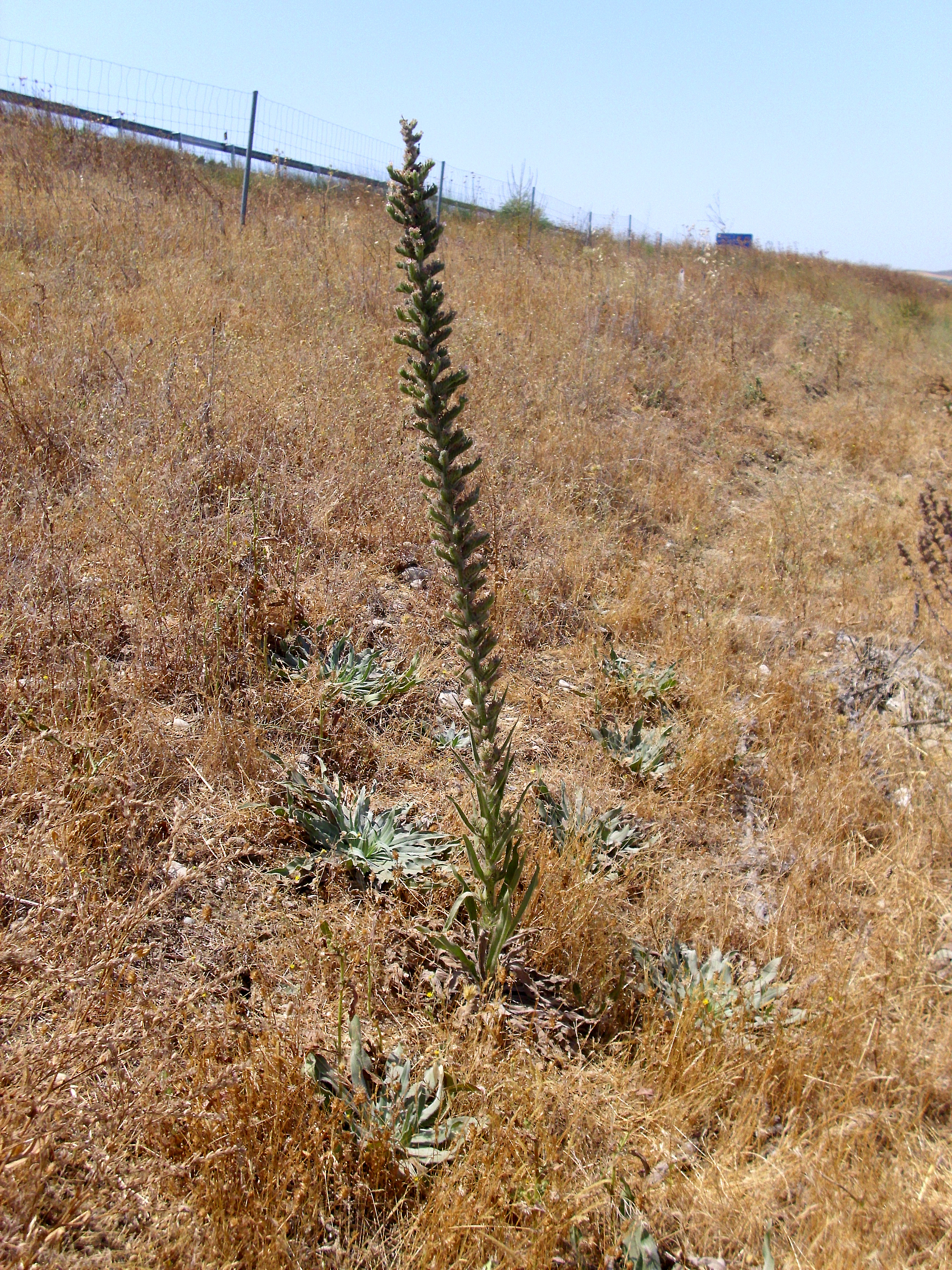 Echium boissieri habit, Mengibar, Jaen, Spain